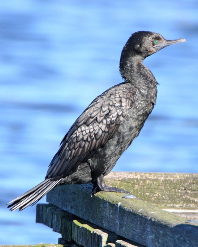 Little Black Cormorant (Phalacrocorax sulcirostris) at Centiennal Park, Sydney, NSW, Australia